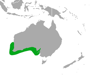 Australian Sea Lion (Neophoca cinerea) range